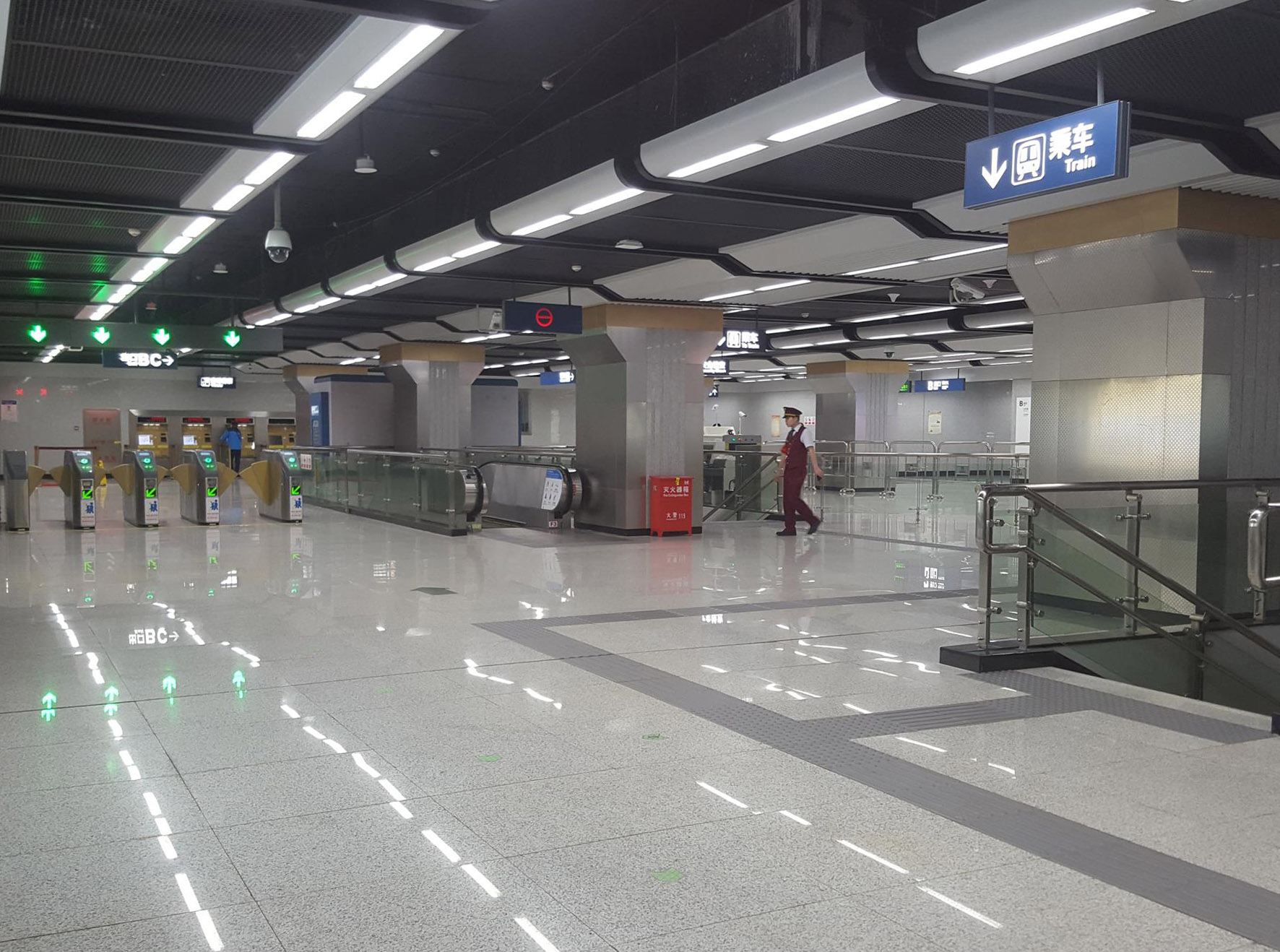 Concourse of Shuangdun Station, Wuhan Metro